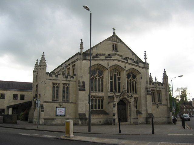 Wesley Methodist Church, Cambridge The Church, built in 1913, overlooks Christ's Pieces, one of the most delightful of Cambridge's commons. Built in Gothic style, the building blends with public and university buildings in the city.